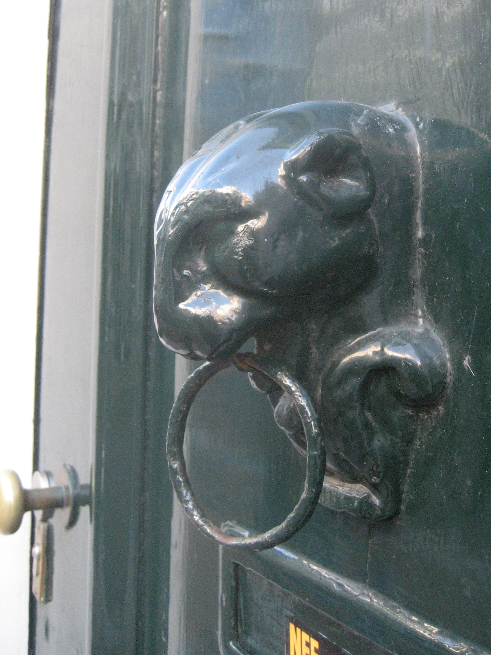 Door knocker at Breestraat 27, Leiden (the Netherlands). Archeologist C.J.C. Reuvens designed the door knocker and lived in this house from 1821-1835